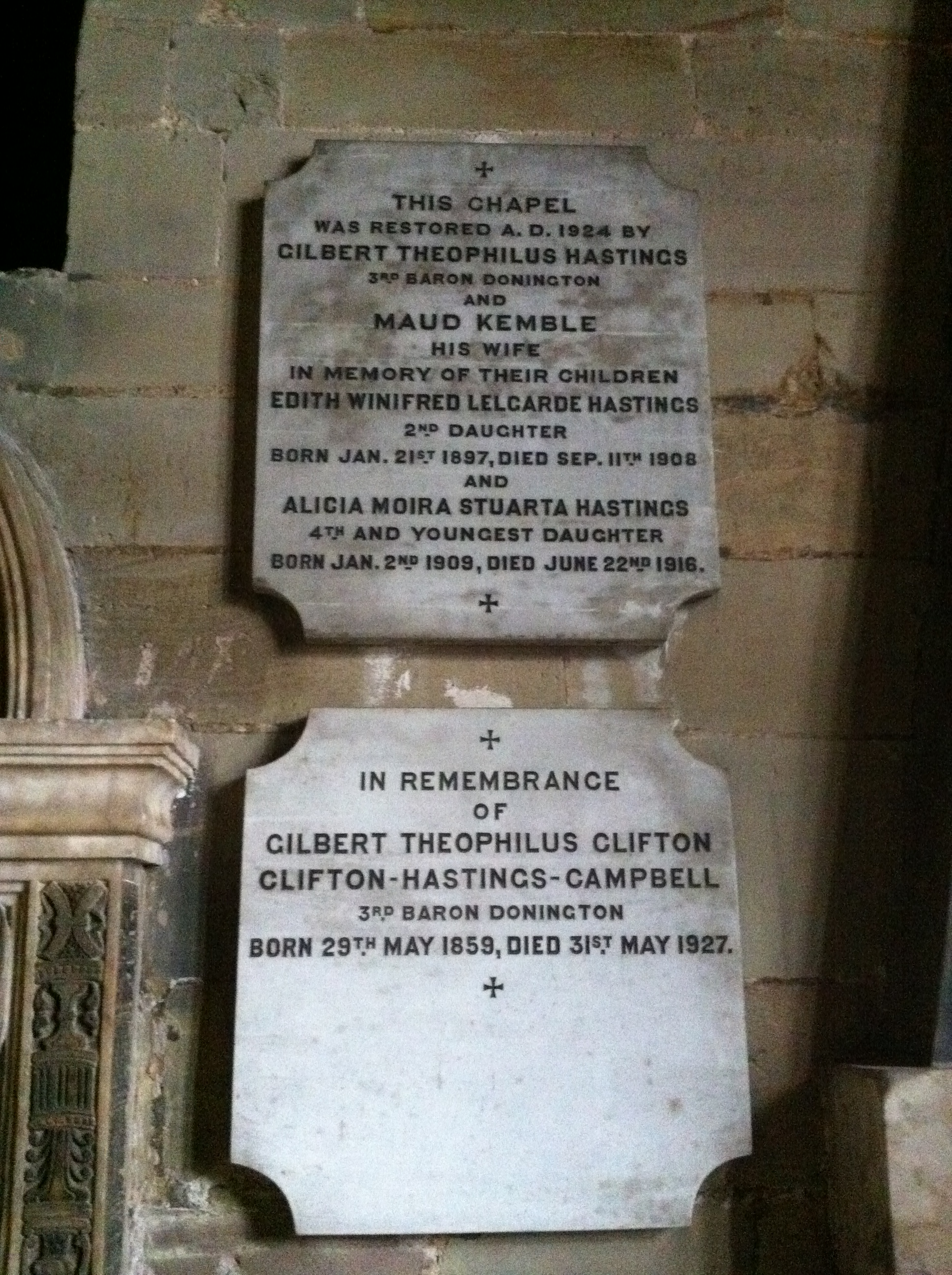 Top: This chapel was restored A.D. 1929 by Gilbert Theophilus Hastings, 3rd Baron Donington and Maud Kemble his wife, in memory of their children Edith Winifred Lelgarde Hastings, 2nd daughter, born Jan 21st 1897, died Sep. 11th 1908, and Alicia Moira Stuarta Hastings, 4th and youngest daughter, born Jan 2nd 1909, died June 22nd 1916. Bottom: In remembrance of Gilbert Theophilus Clifton Clifton-Hastings-Campbell, 3rd Baron Donington, Born 29th May 1859, Died 31st May 1927.